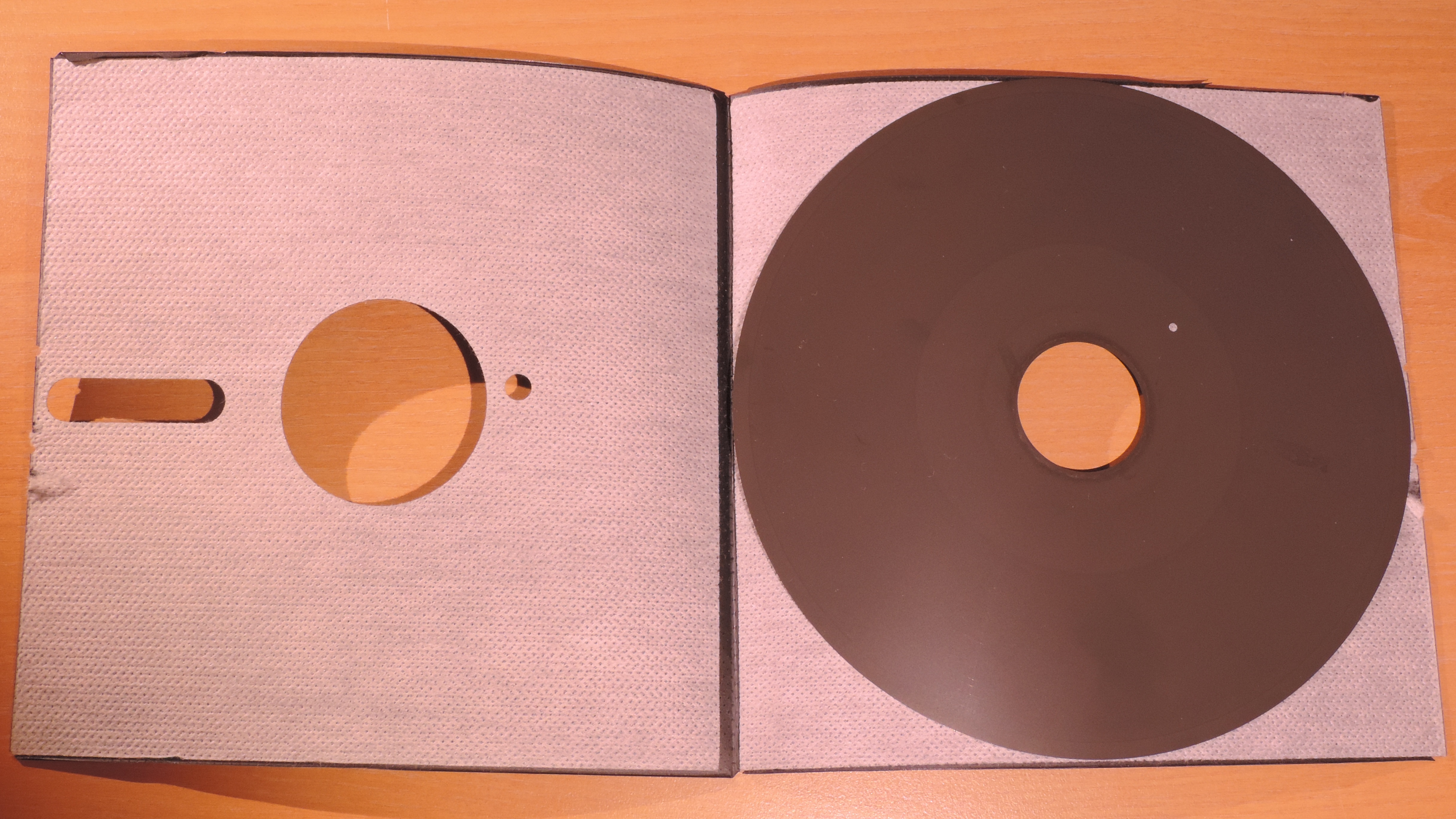 Inside an 8-inch floppy disk, produced by IZOT plant, Bulgaria.